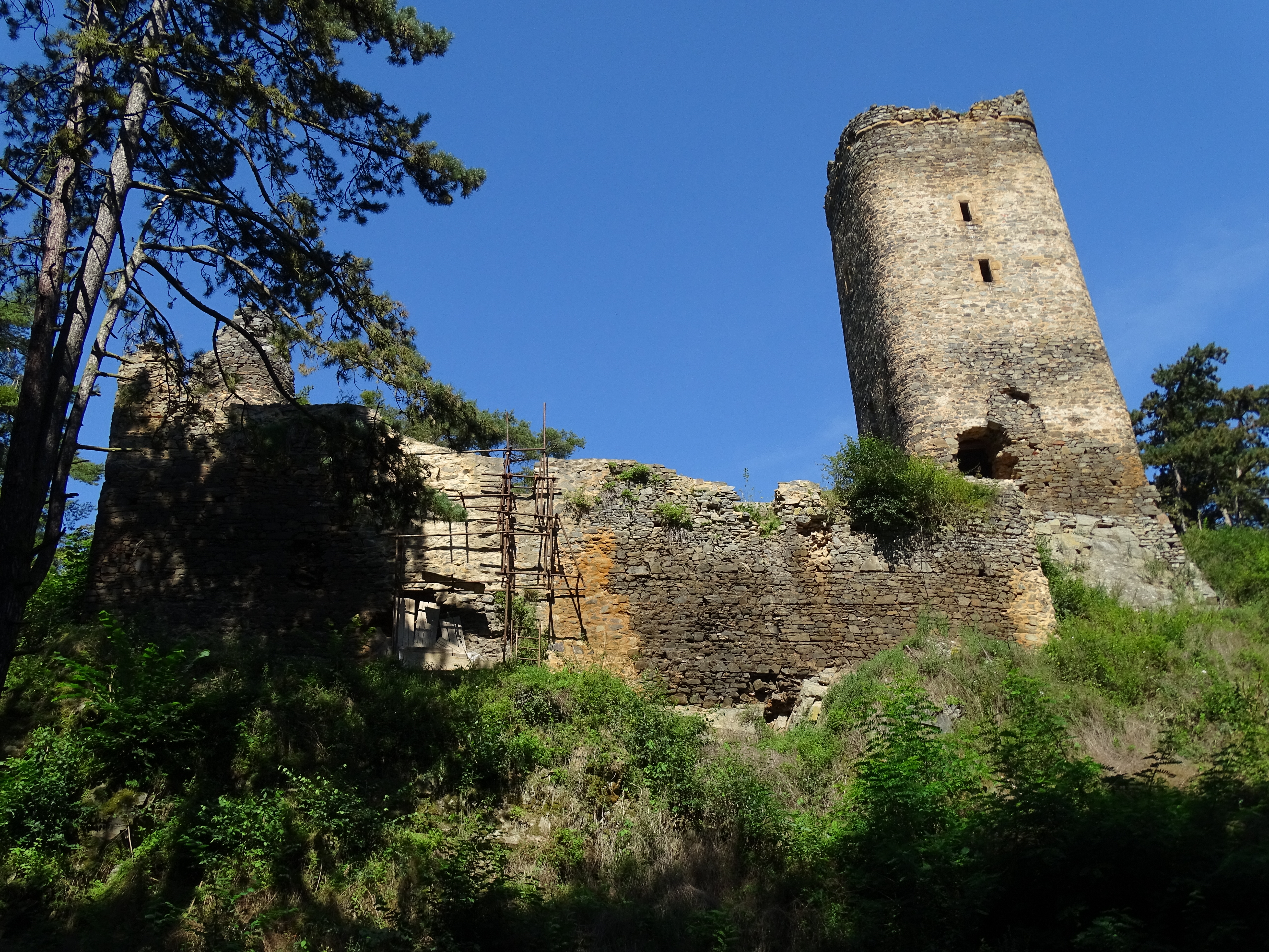 Liblín, Rokycany District, Plzeň Region, Czechia. Libštejn Castle.